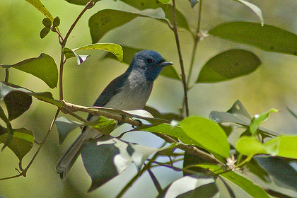 Black-Naped Monarch male (Hypothymis azurea). The Nilgiris, Tamilnadu, India